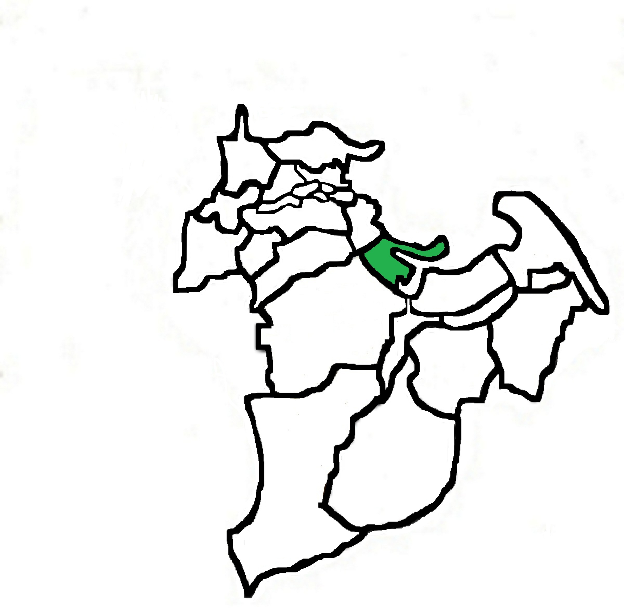 Kanaisotown Komatsushimacity Tokushimapref range